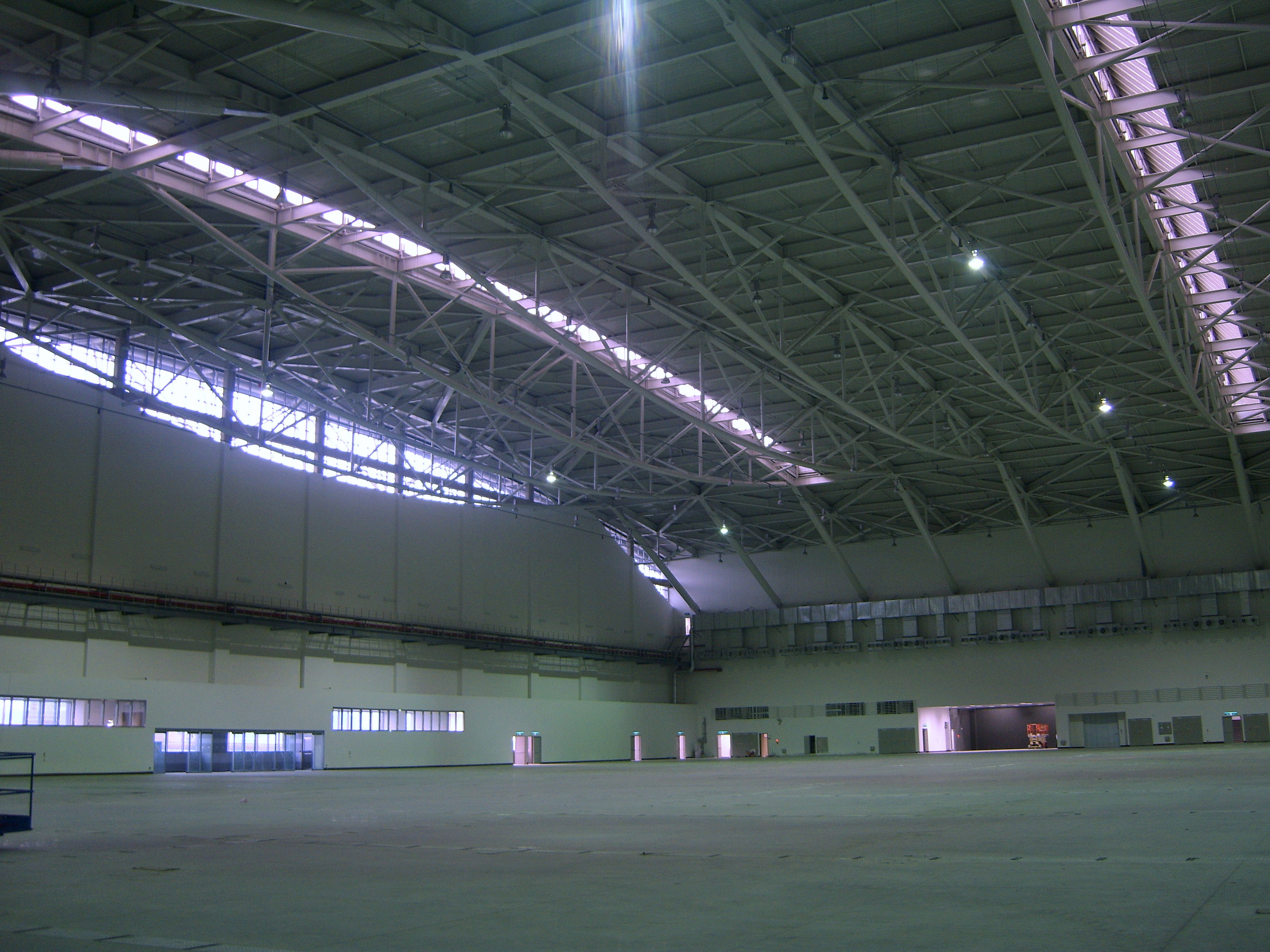 Area L of Upper Hall of TWTC Nangang.